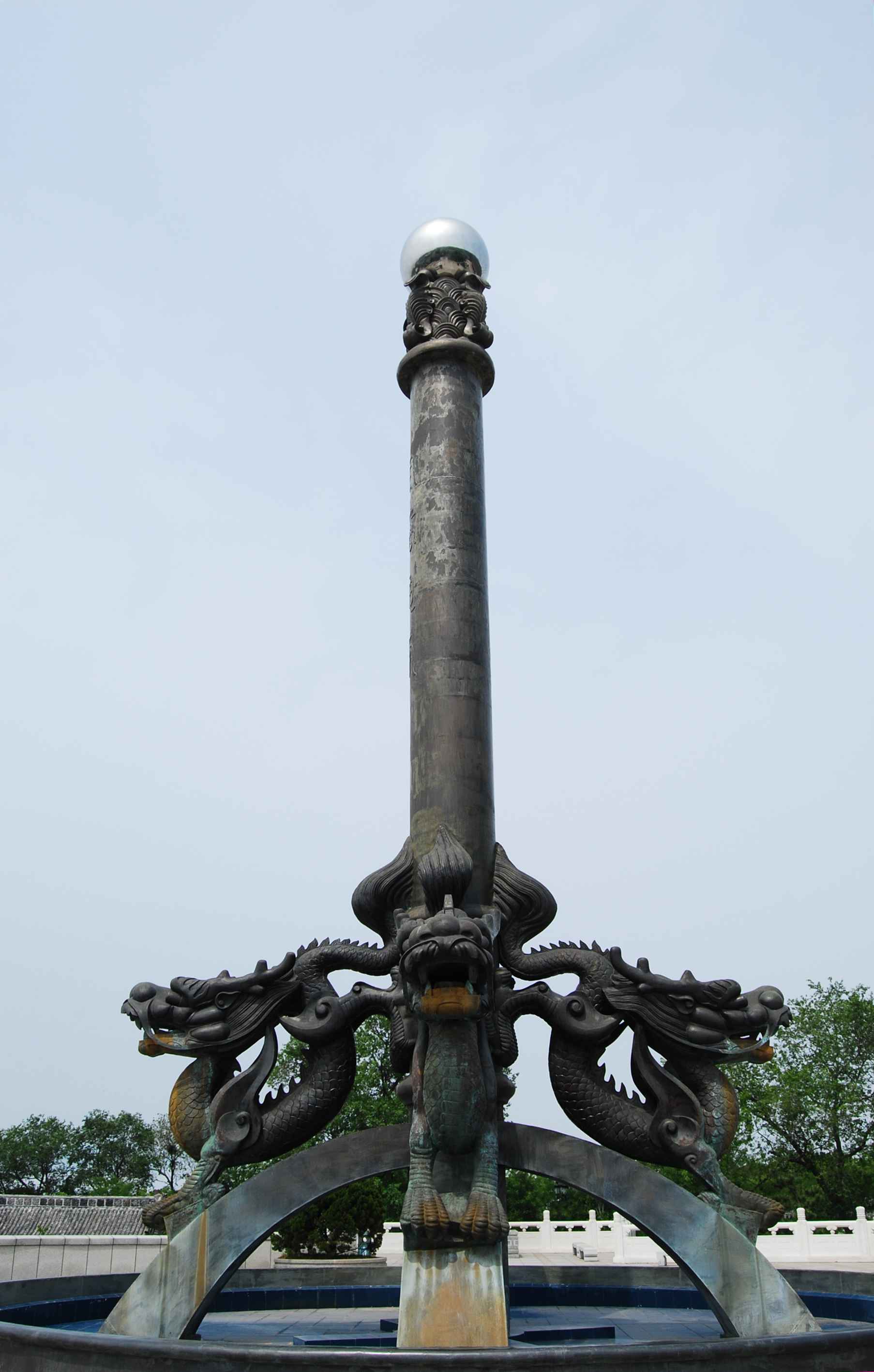 The statue in Liugongdao, Weihai,Shandong.